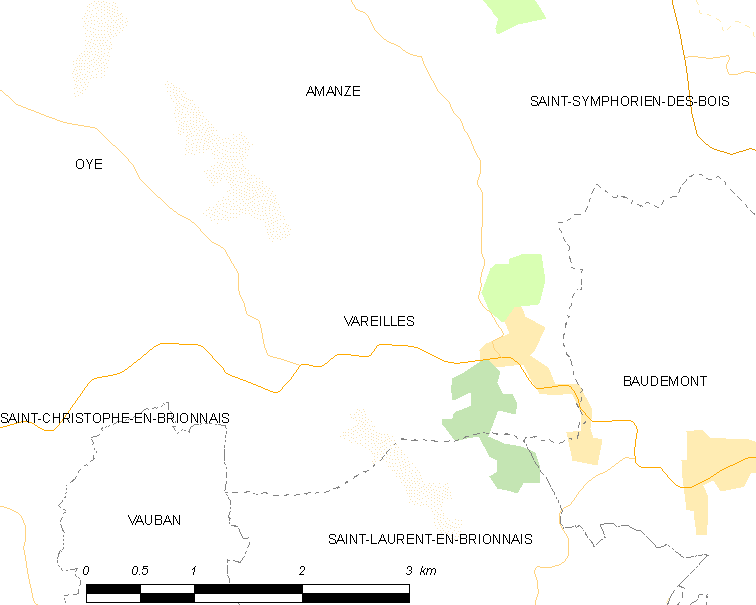 Map of French municipality